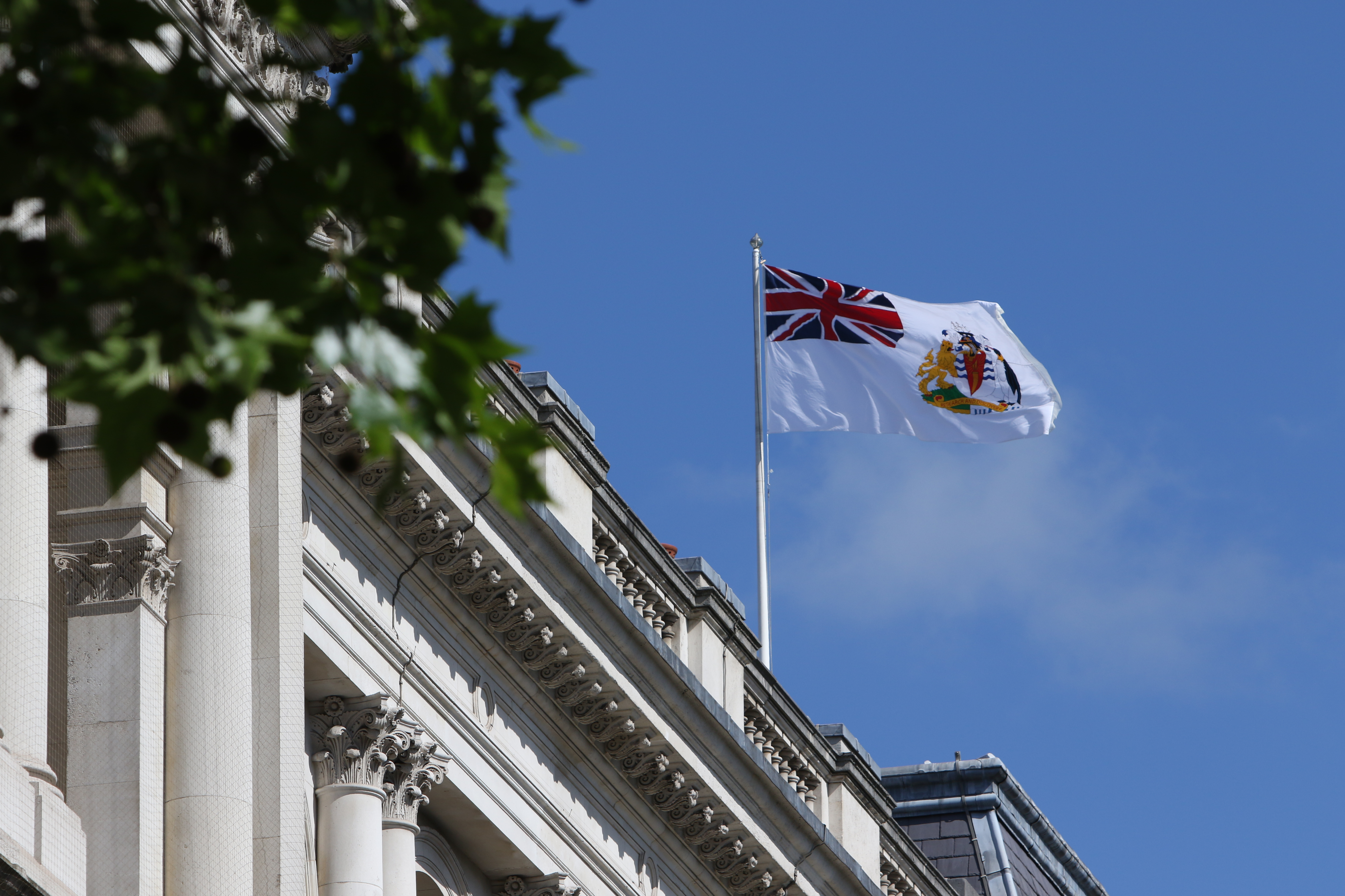 The flag of British Antarctic Territory (BAT) flies on the Foreign Office building in London to celebrate Mid-winter Day, 21 June 2019.